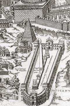 map of ancient Rome with Meta Romuli, Hadrian's tomb and Circus of Nero